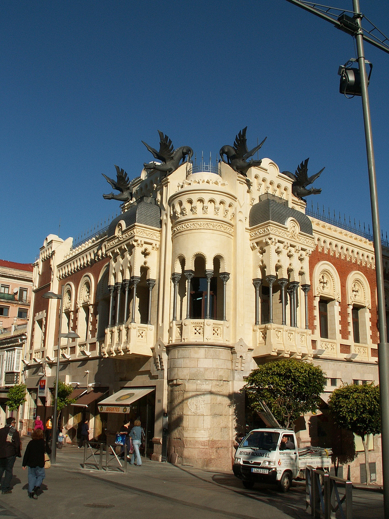 House of the Dragons, Ceuta, Spain.